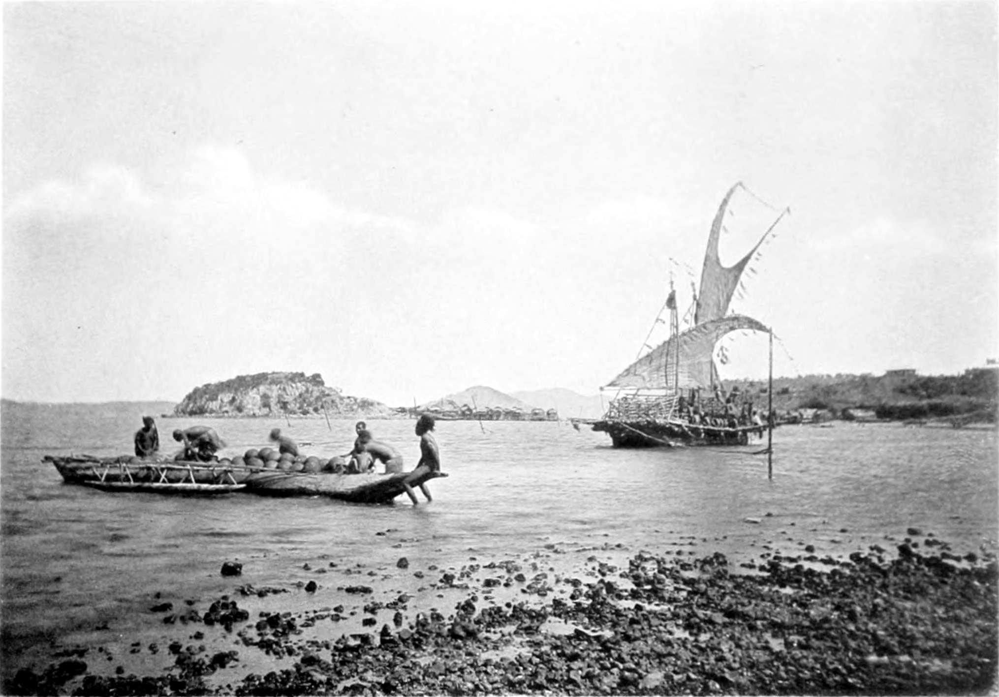 Lakatoi being loaded, Port Moresby, British New Guinea.